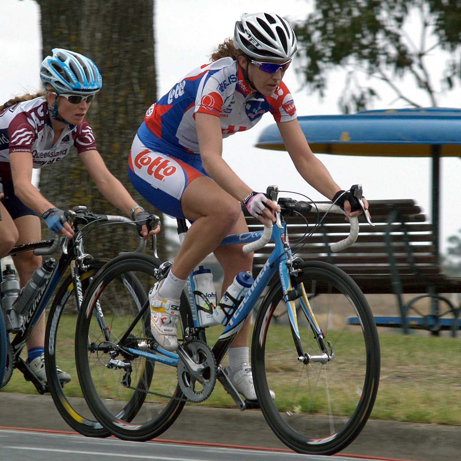 Australian cyclist Sara Carrigan (Lotto-Belisol Ladies Team) during the 2008 Geelong World Cup, Geelong, Australia. Behind her is Ruth Corset (QAS).